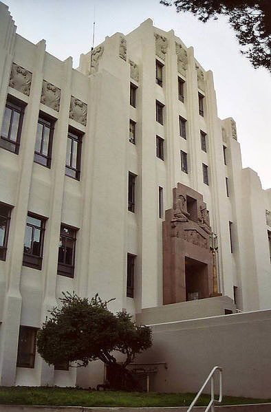 County Courthouse by Roy Place